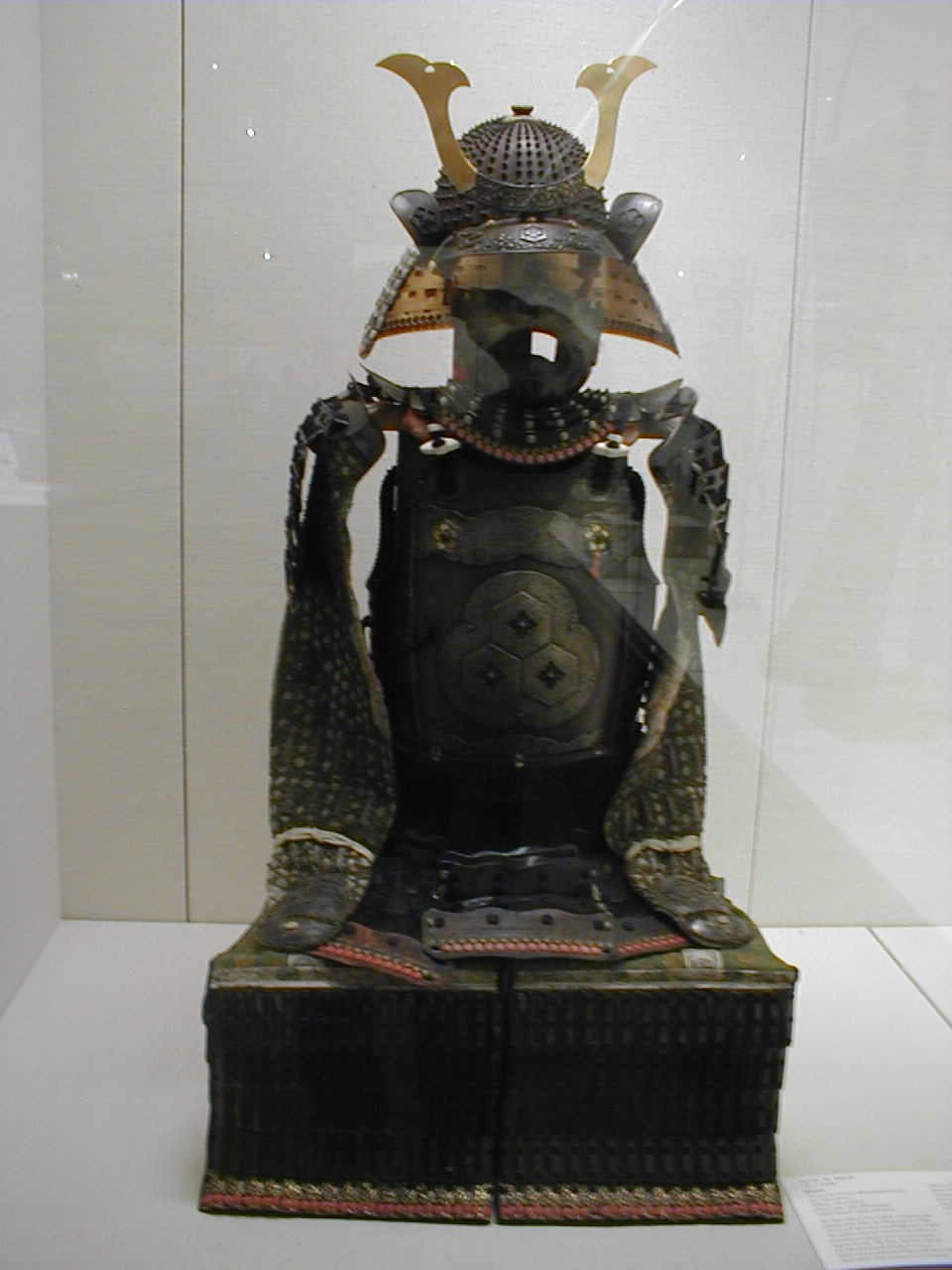 Samurai Armor as seen at the British Museum in London.